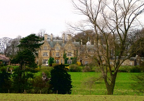 Branston Hall, April 2005.